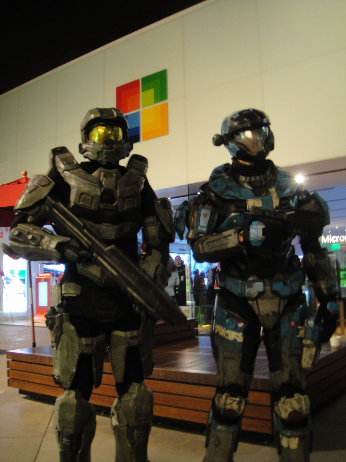 @ the Microsoft Store - Century City, CA photo 2011 taken by Doug Kline If you're interested in higher resolution versions of my images, contact me via my profile page.